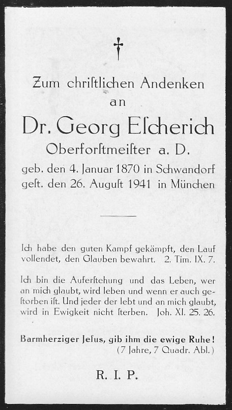 Death Card Georg Escherich